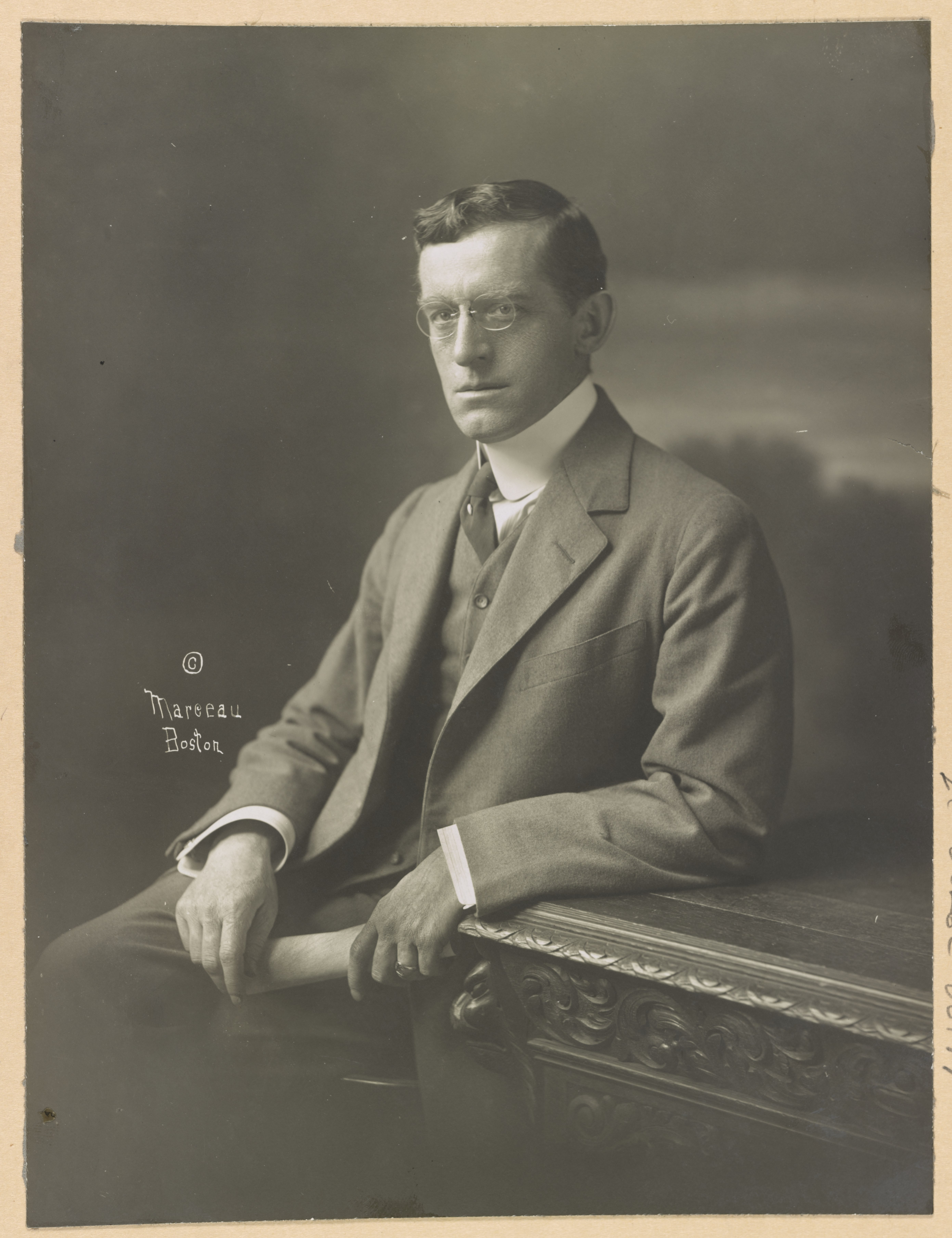 Title: Ralph A. Cram / Marceau. Abstract/medium: 1 photograph : print ; sheet 22 x 17 cm.